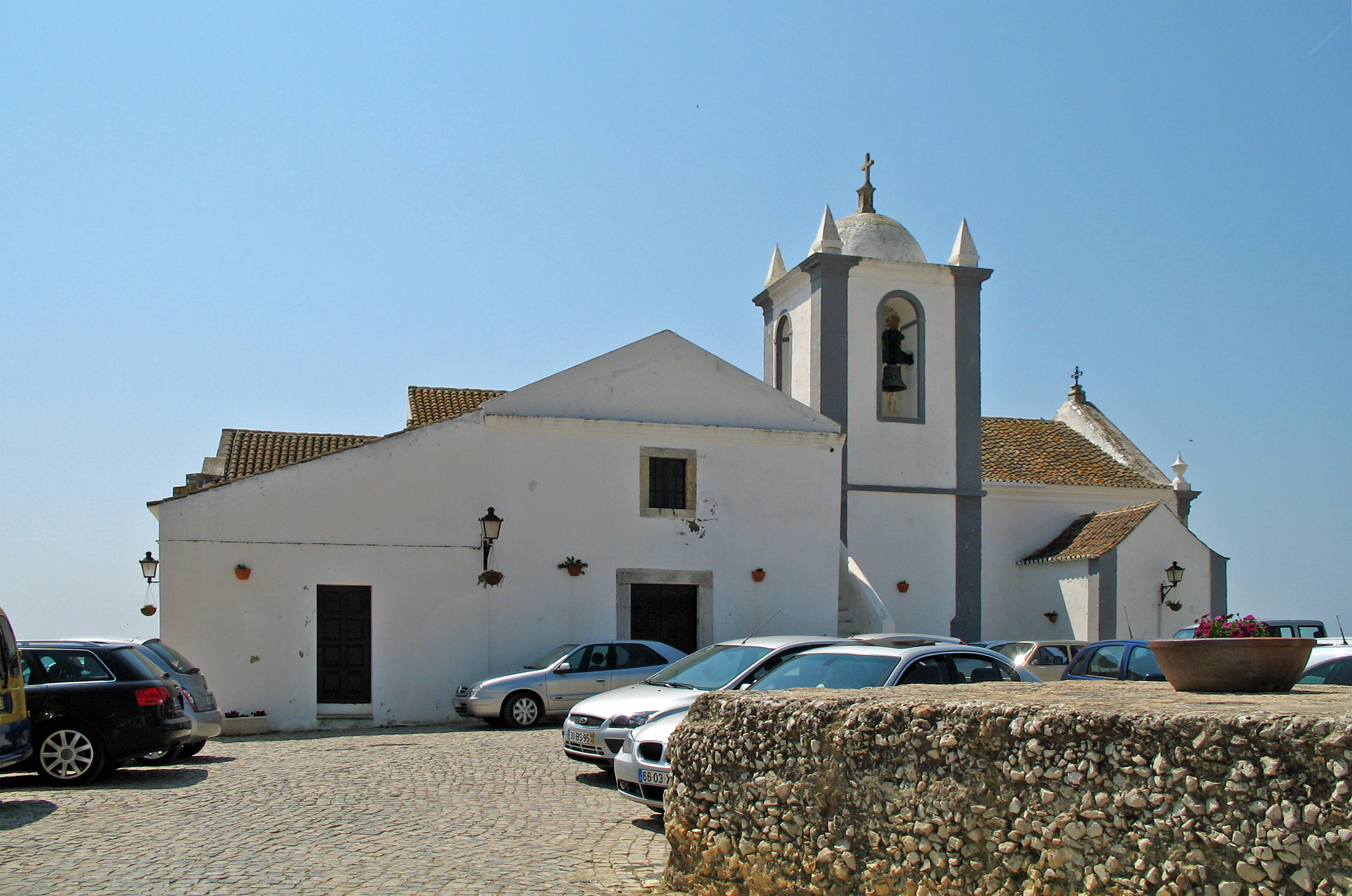 Cacela Velha (Algarve, Portugal): the church